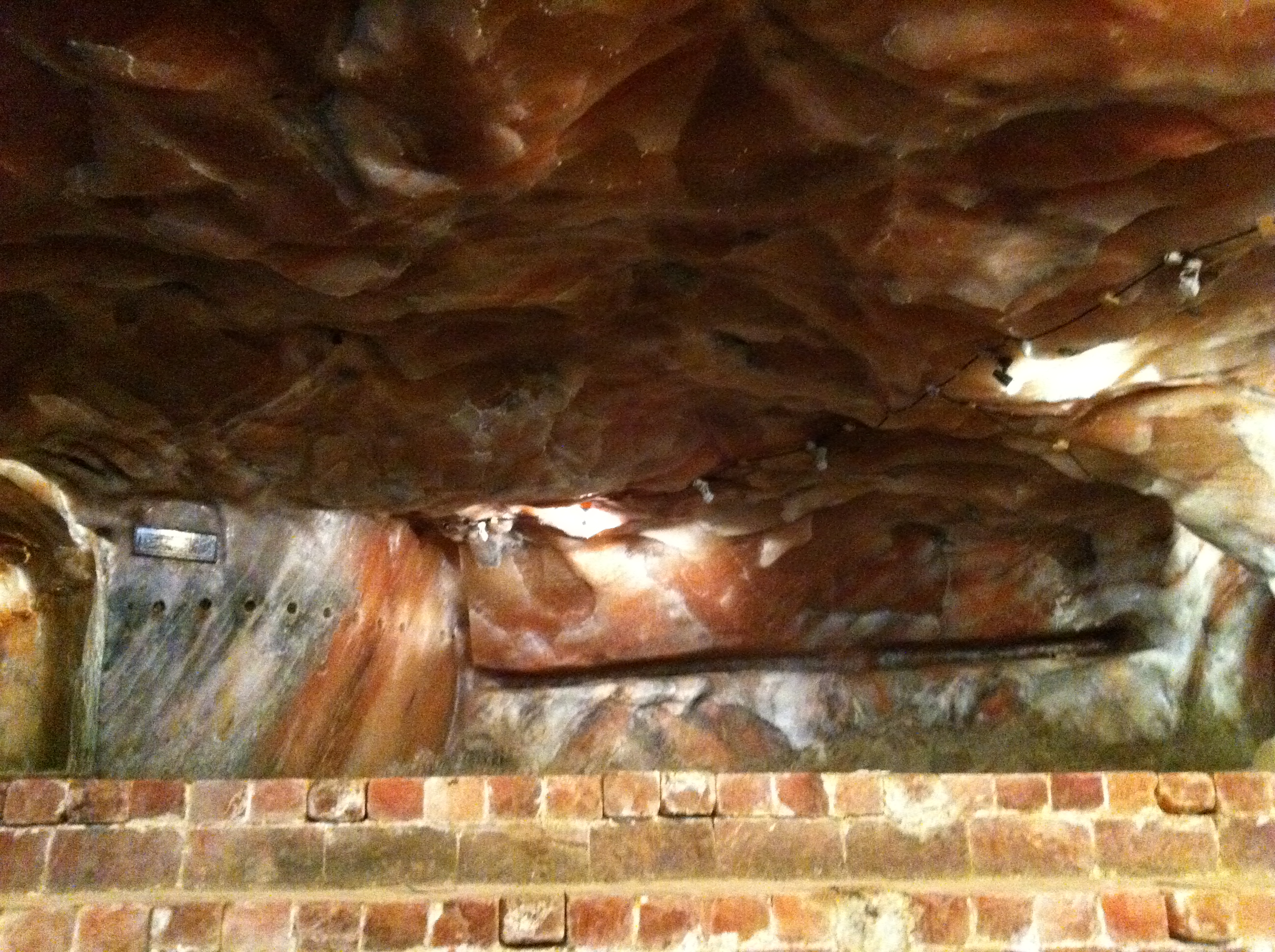 Khewra Salt Mine - Rock salt can be seen as ceiling here